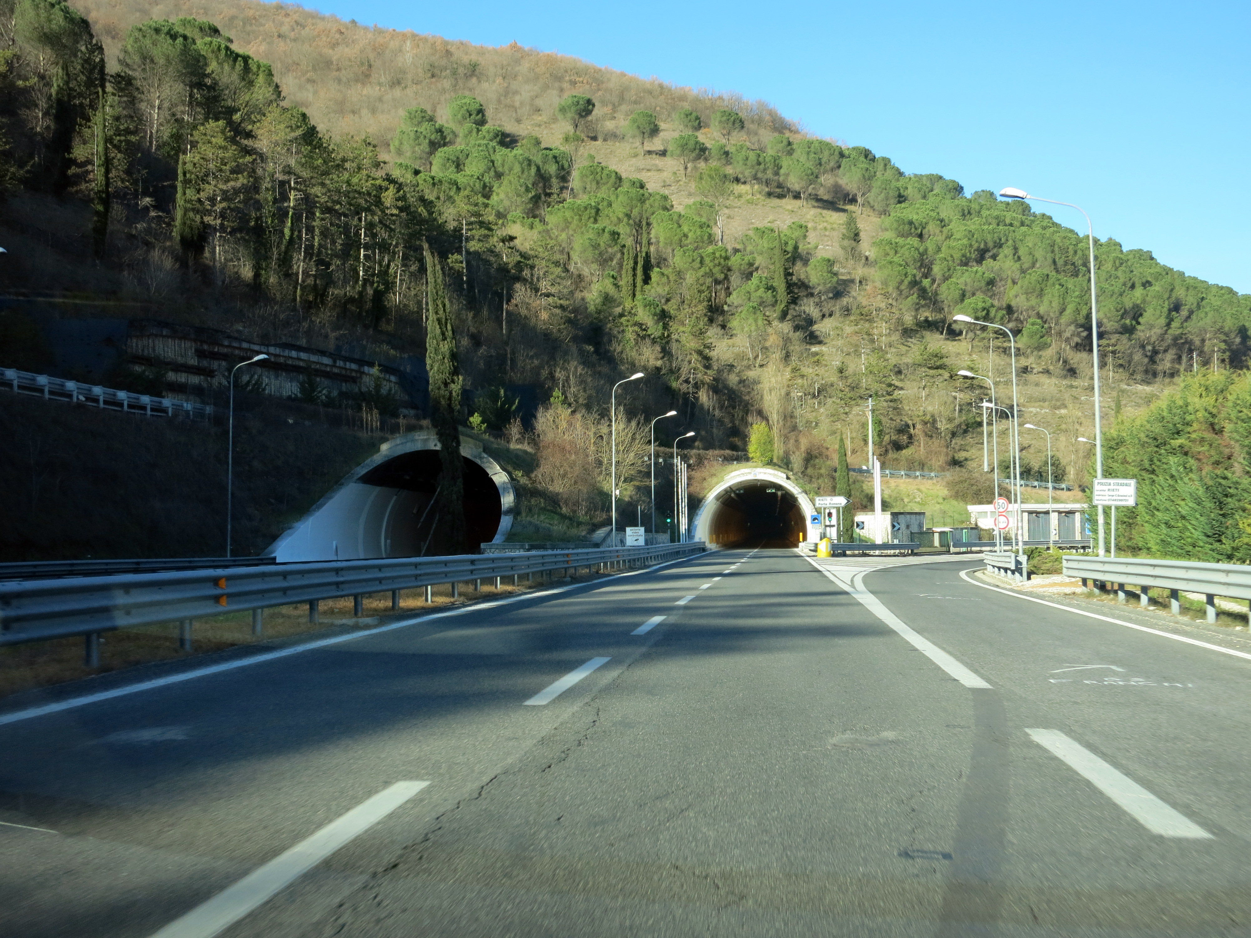 Italian State Road n. 4 Via Salaria - Colle Giardino tunnel, near Rieti - south portal of the north-heading tunnel